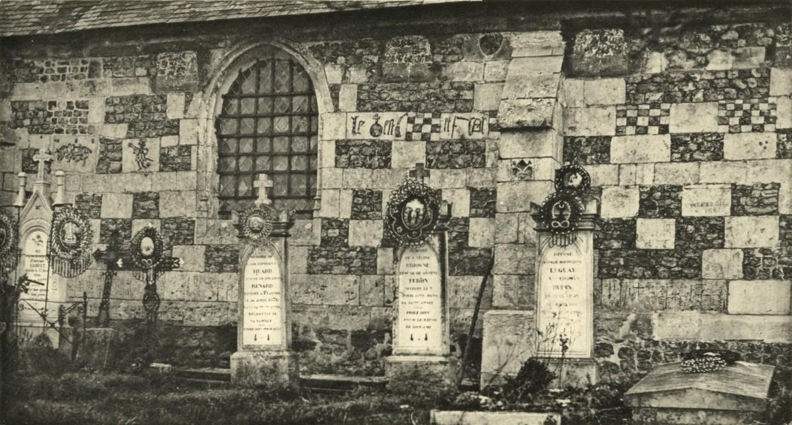 The 16th century rebus on the southern wall of the church Saint-Grégoire in Saint-Grégoire du Vièvre. Picture by Héliographie Dujardin in Gazette archéologique : recueil de monuments pour servir à la connaissance et à l’histoire de l’art antique. Volume 13, published in 1888, Jean De Witte (1808-1889), François Lenormant (1837-1883), Robert de Lasteyrie (1849-1921). Author of the related article: Arthur Join-Lambert (1839–1917).